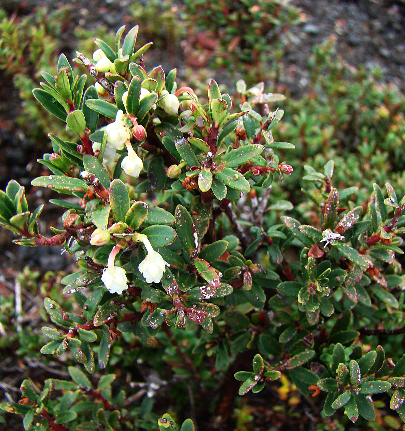 One of the Chilean 'Chauras' from Volcan Villarica In context at